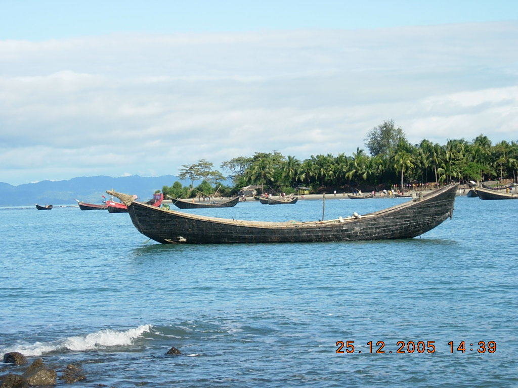 Fishing Boat Harbour at St Martin's Island